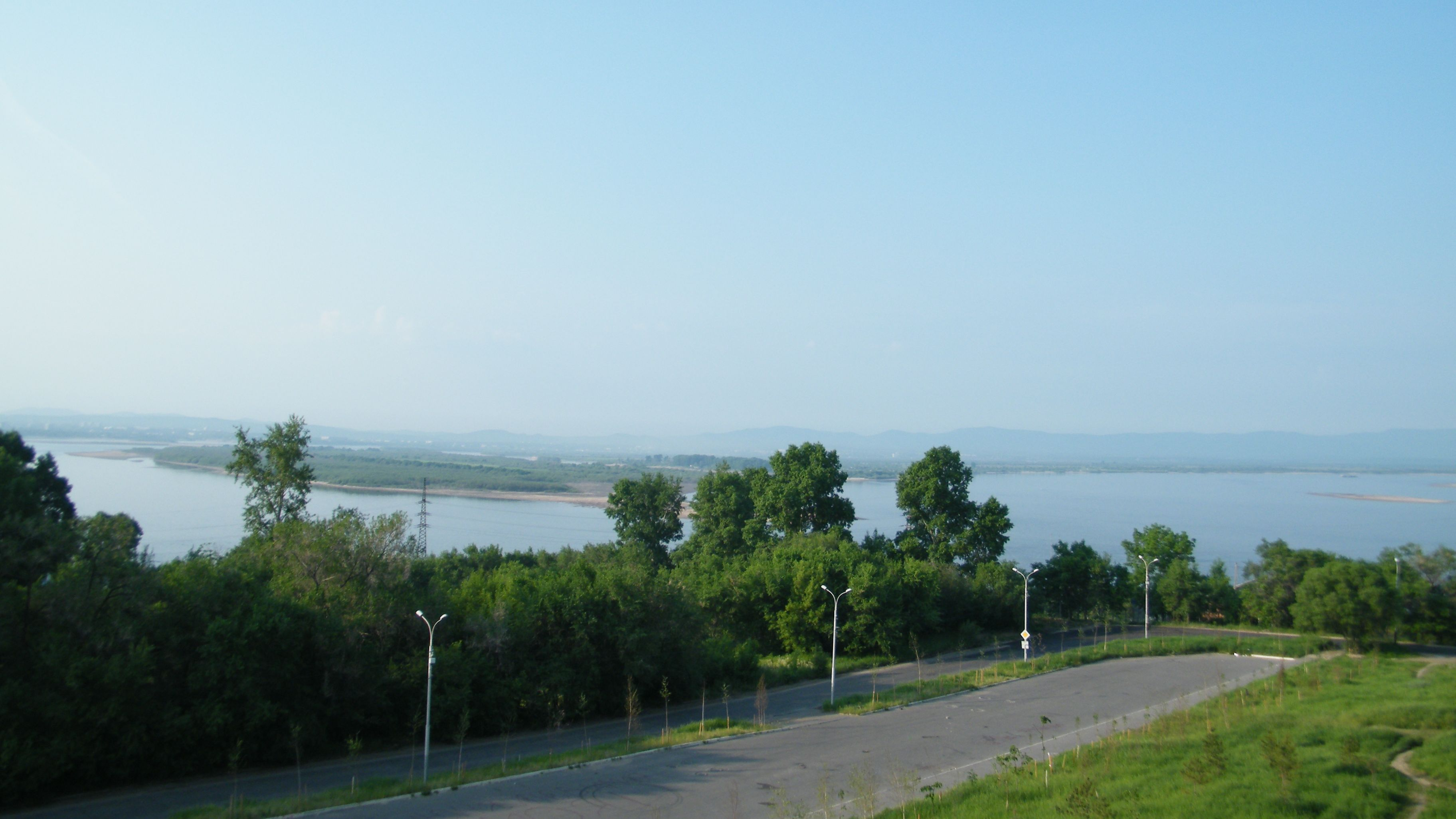 Большой Уссурийский остров